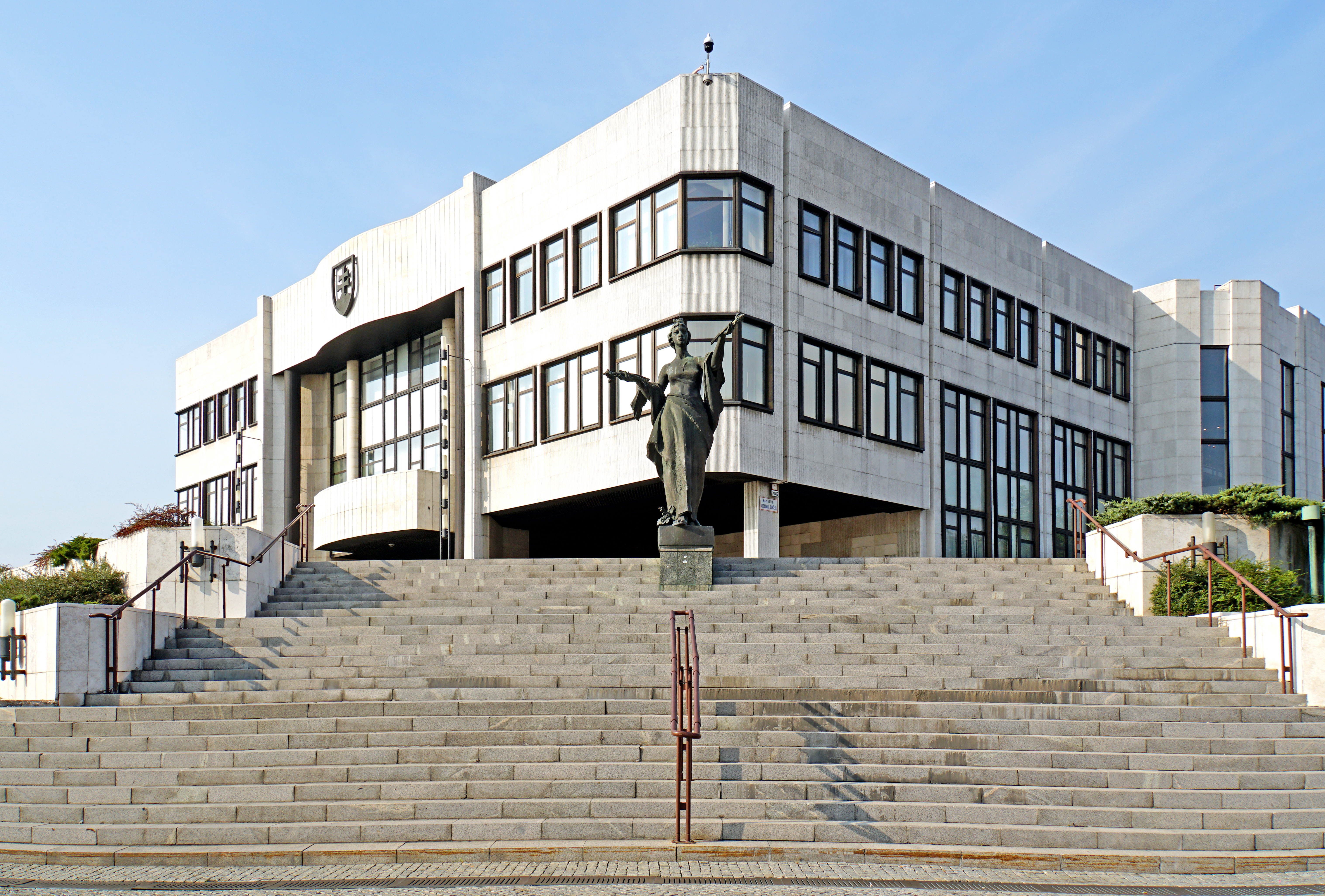 PLEASE, NO invitations or self promotions, THEY WILL BE DELETED. My photos are FREE to use, just give me credit and it would be nice if you let me know, thanks. National Council of the Slovak Republic, approves domestic legislation, constitutional laws, and the annual budget.